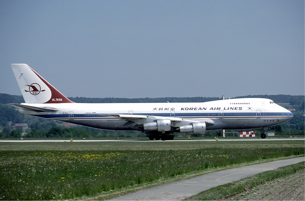 Boeing 747-200 of Korean Air Lines at Zurich Airport